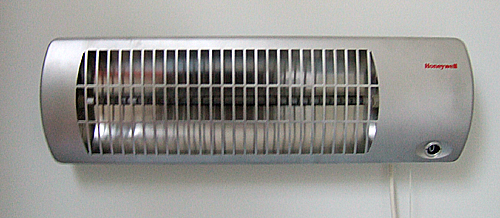 infrared radiant heater made by Honeywell, electrical driven